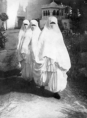 Old photograph of women wearing burka-like garments